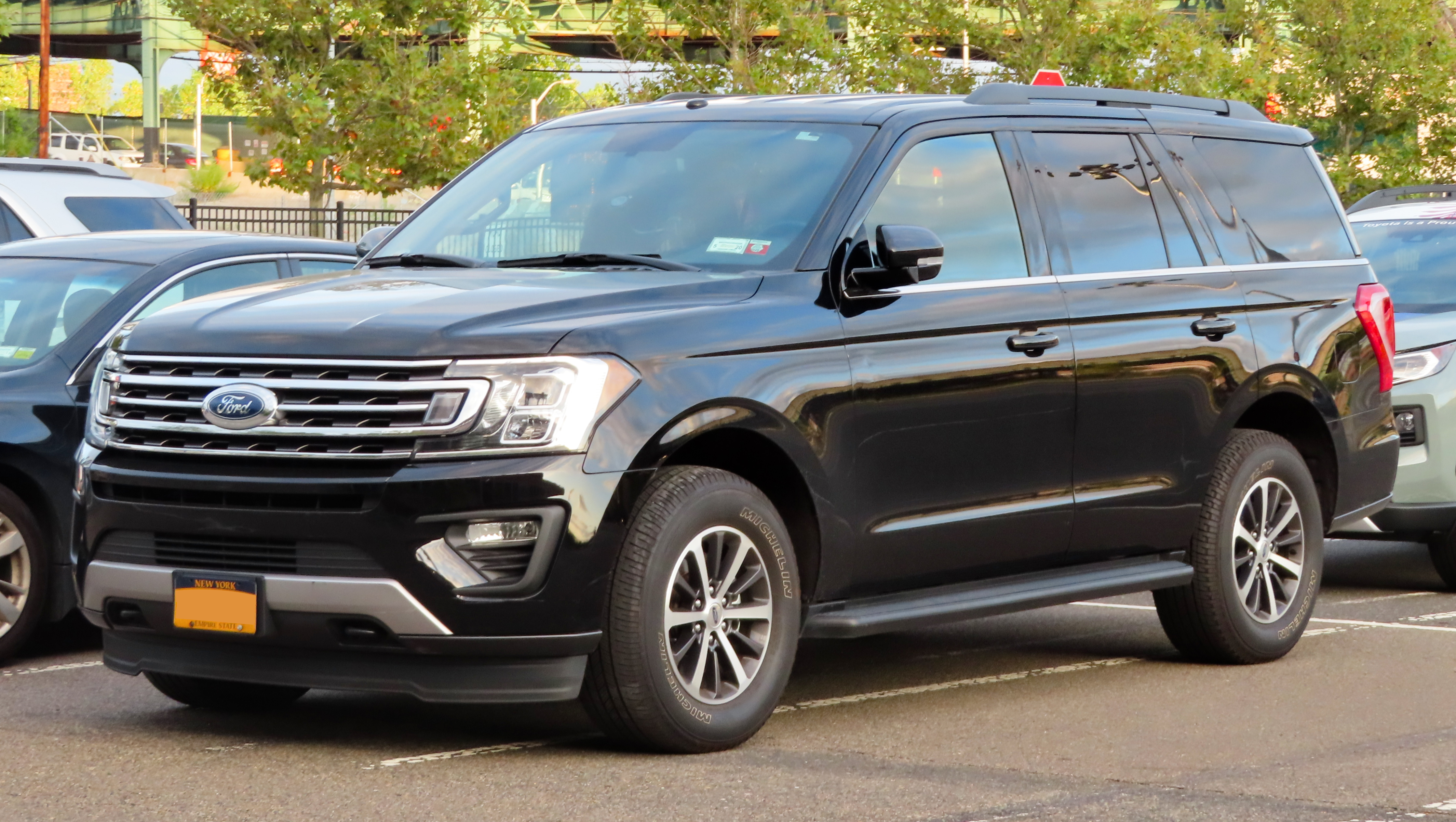 A 2018 Ford Expedition XLT photographed in Flushing, Queens, New York, USA